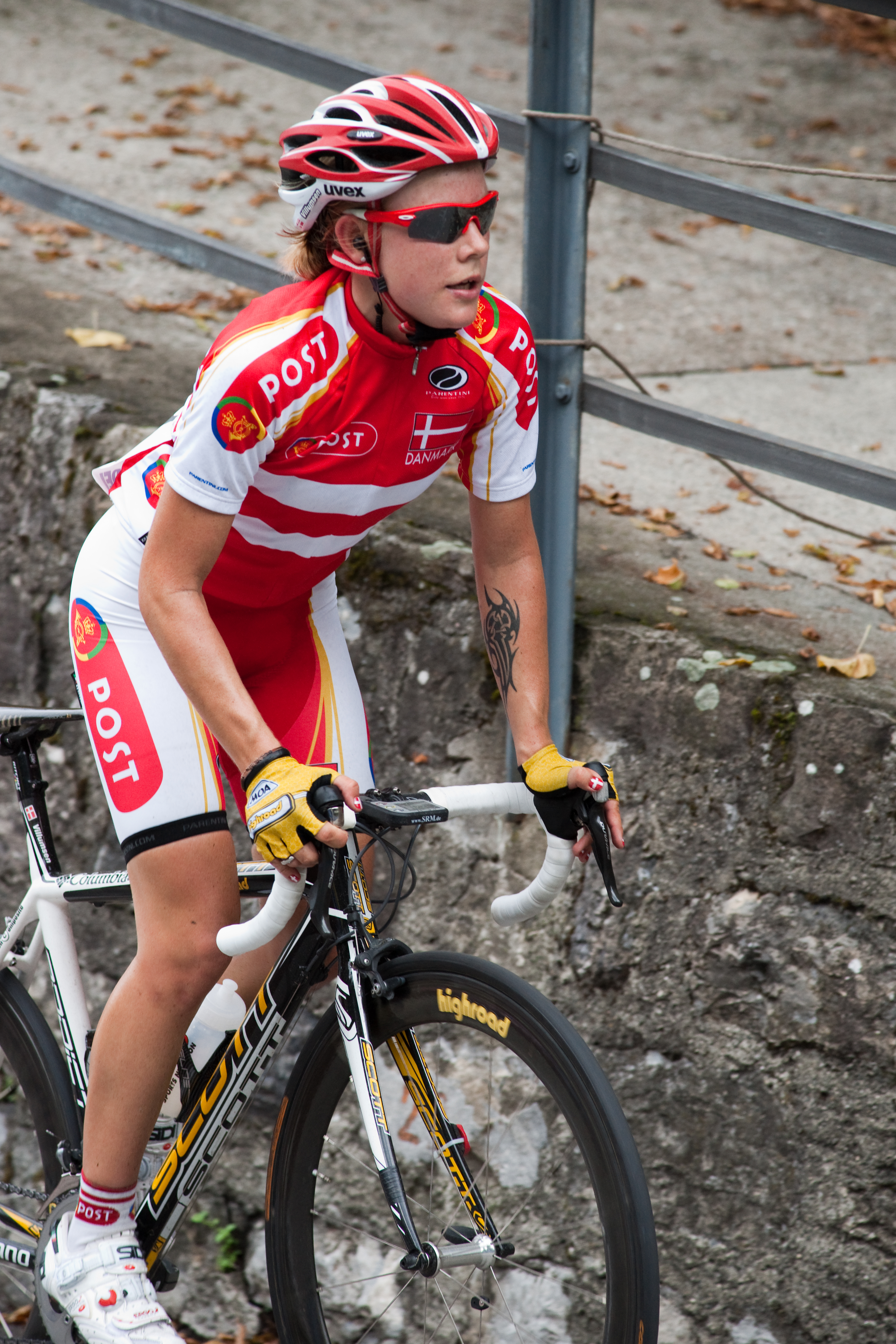 Linda Melanie Villumsen during the 2009 UCI Road Cycling Championships in Mendrisio, Switzerland.